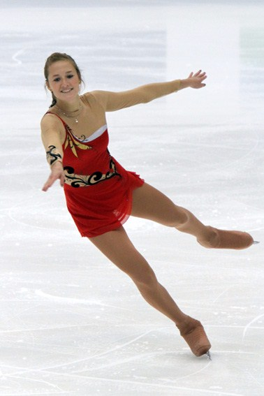 Jaimee Nobbs at the 2011 Four Continents Championships.